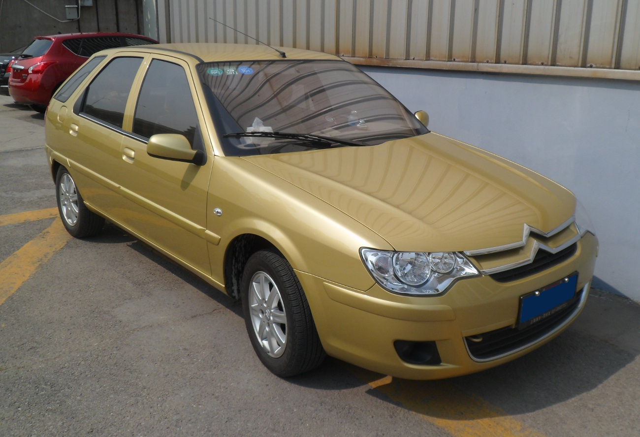 Citroën C-Elysée hatch photographed in Shanghai, China.